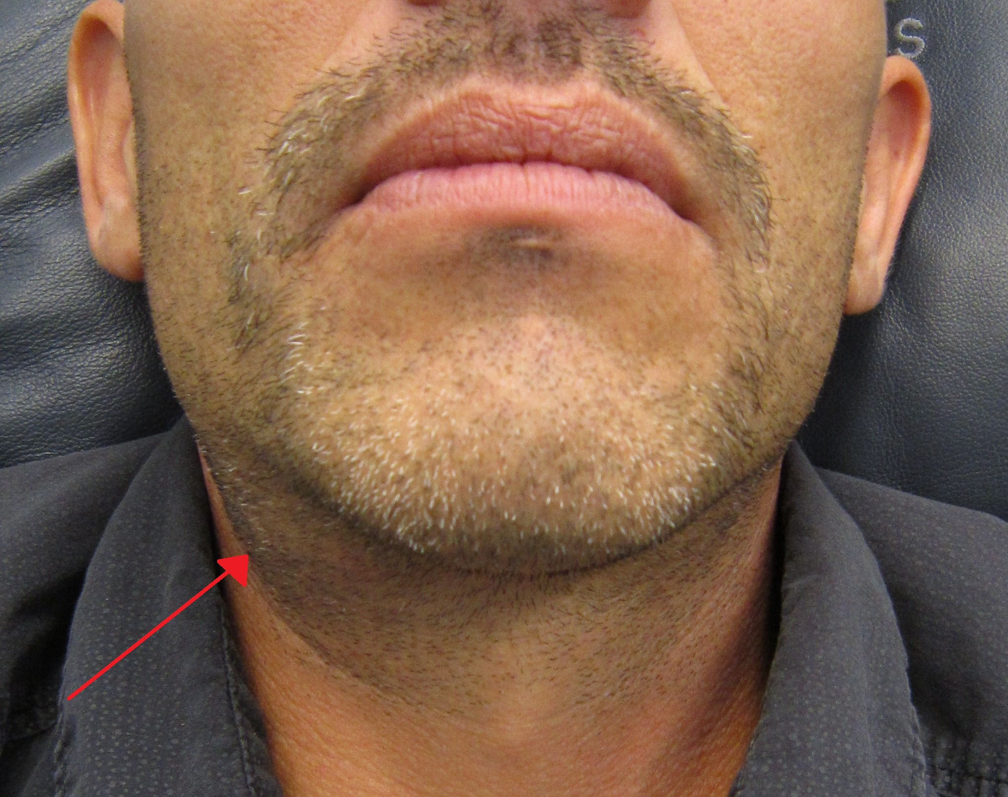 Swelling of the submandibular duct due to an obstructing stone